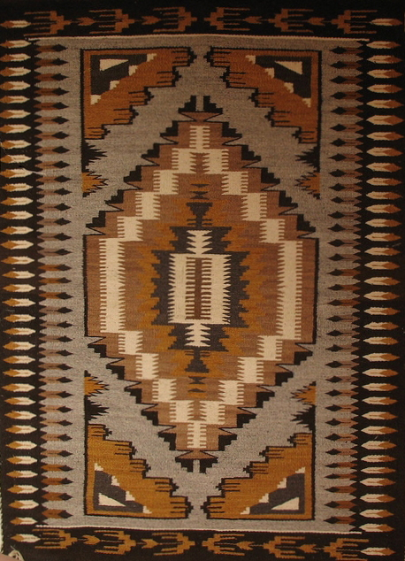 Navajo Rug Diné bizaad: Diyogí